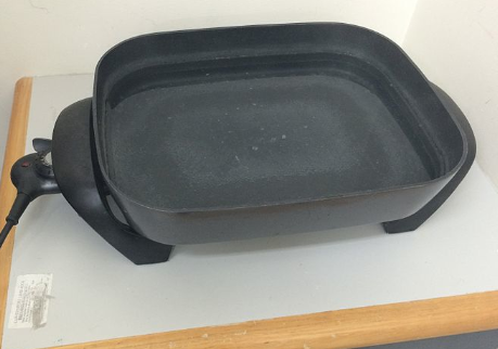 frypan